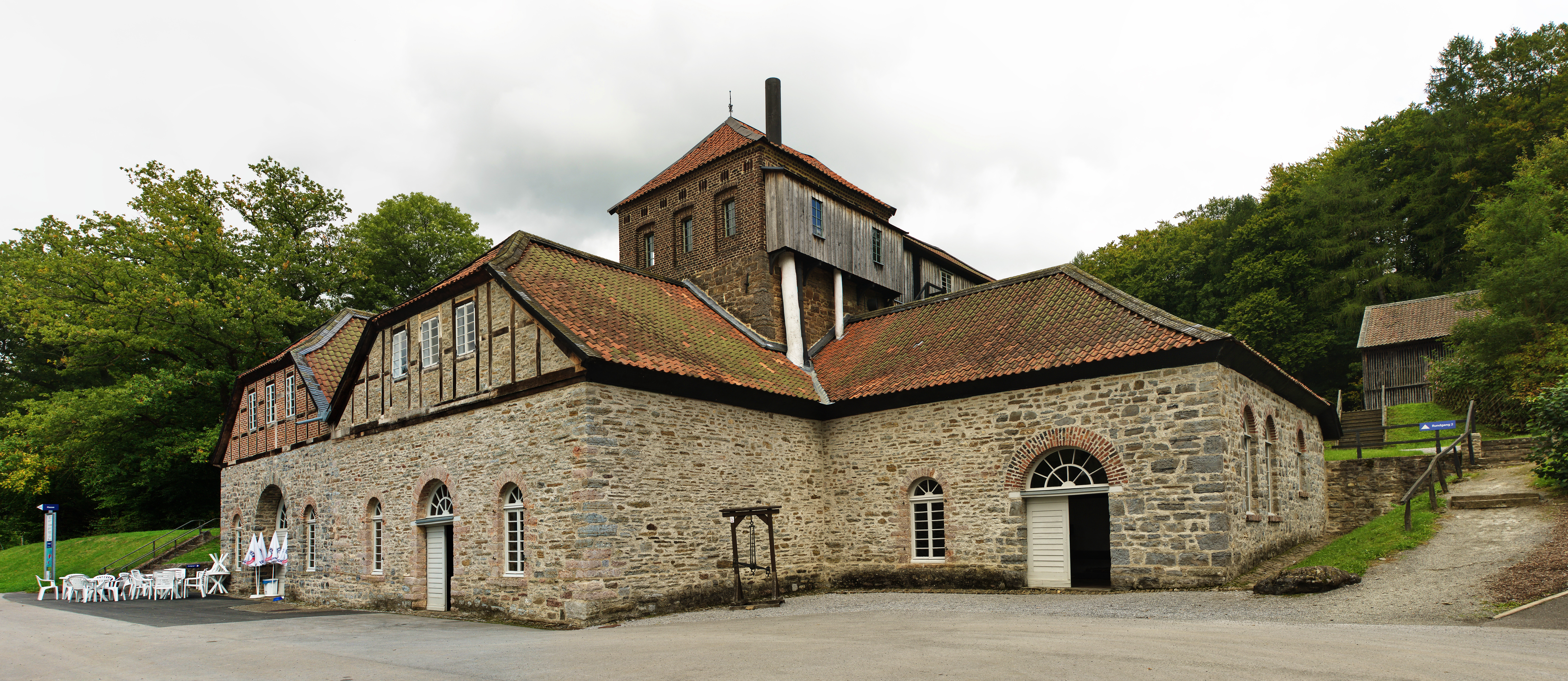 The Luisenhütte Wocklum in Balve (Germany) is the oldest blast furnace in Germany, which is still maintained with the complete equipment. It was constructed in the middle of the 18th century an was in use until 1865.